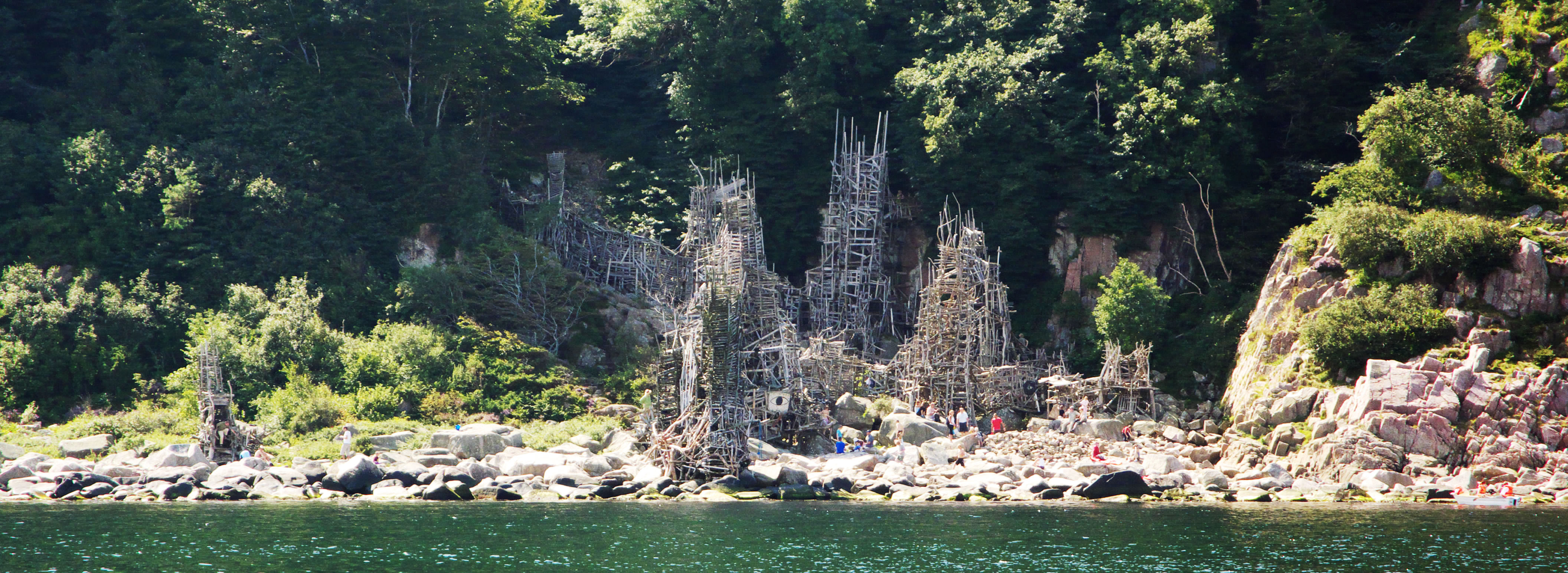 This is the sculpture Nimis of artist Lars Vilks in his self-proclaimed micronation Ladonia, here seen from a boat in the bay.